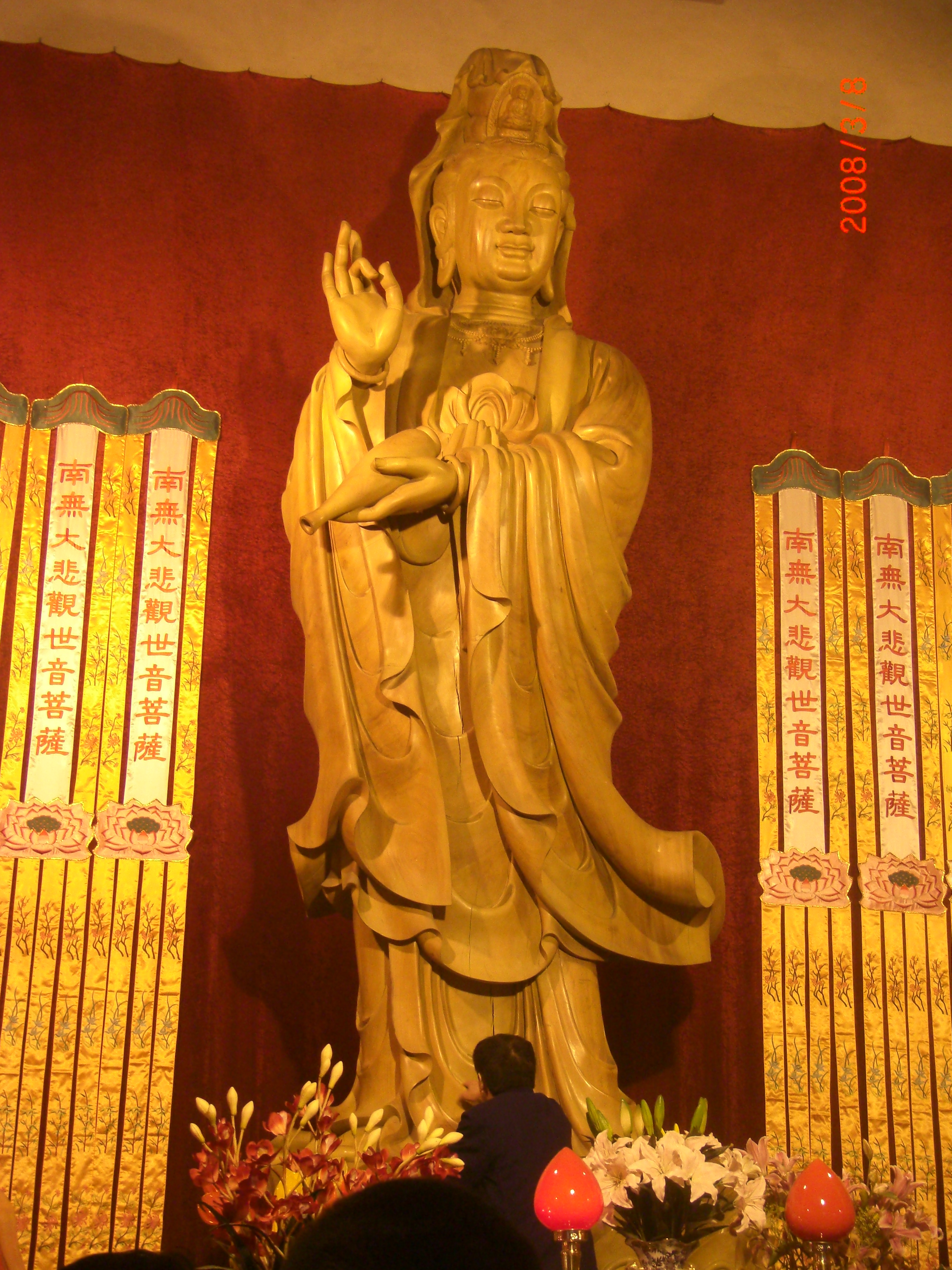 Jinan Temple'S kannon